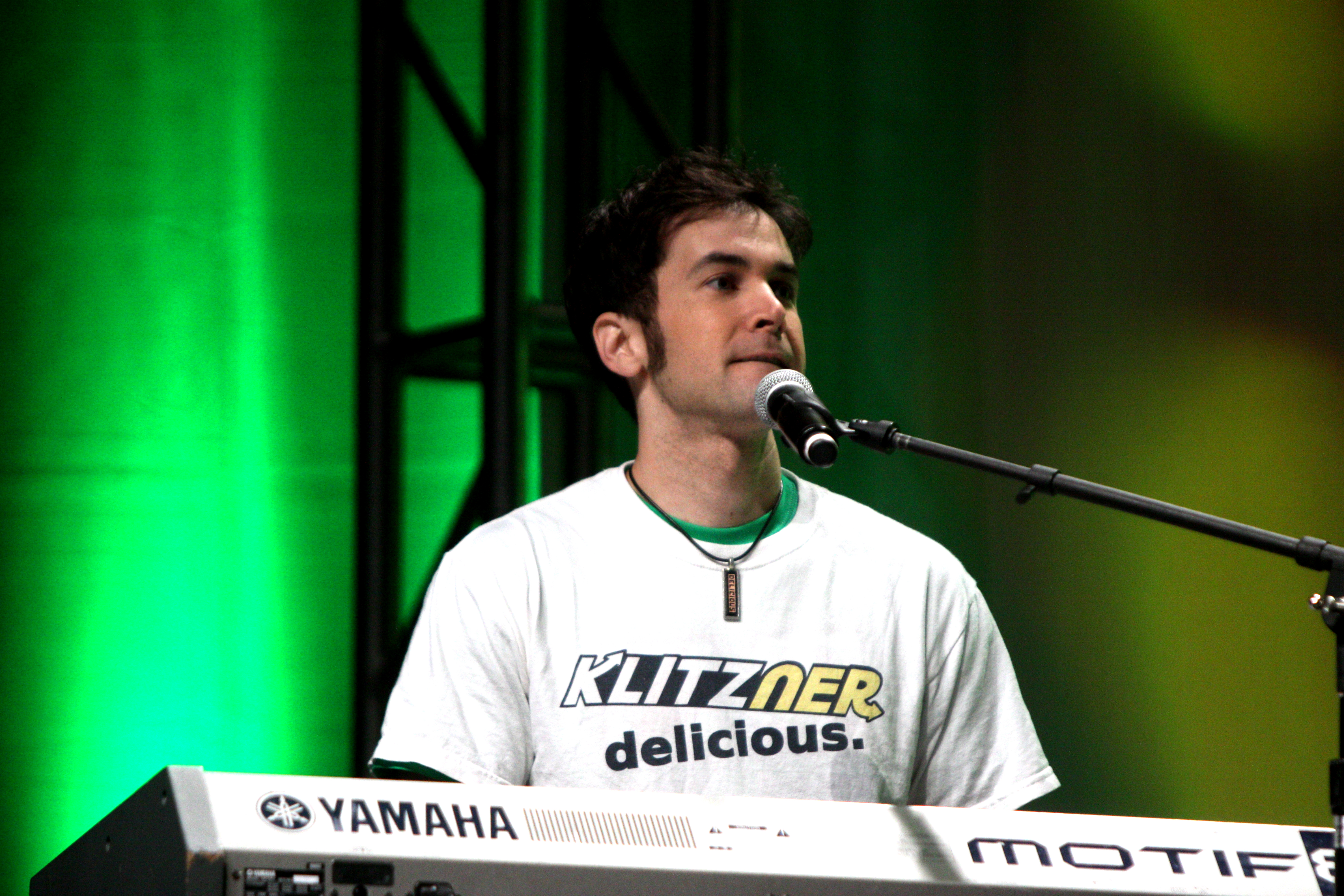 Sean Klitzner performing at VidCon 2012 at the Anaheim Convention Center in Anaheim, California.